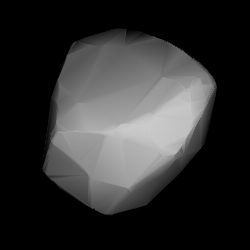 3D convex shape model of 1457 Ankara, computed using light curve inversion techniques. J. Hanuš, J. Ďurech, M. Brož, B. D. Warner (June 2011). "A study of asteroid pole-latitude distribution based on an extended set of shape models derived by the lightcurve inversion method". Astronomy and Astrophysics 530: A134. ISSN 0004-6361. arXiv